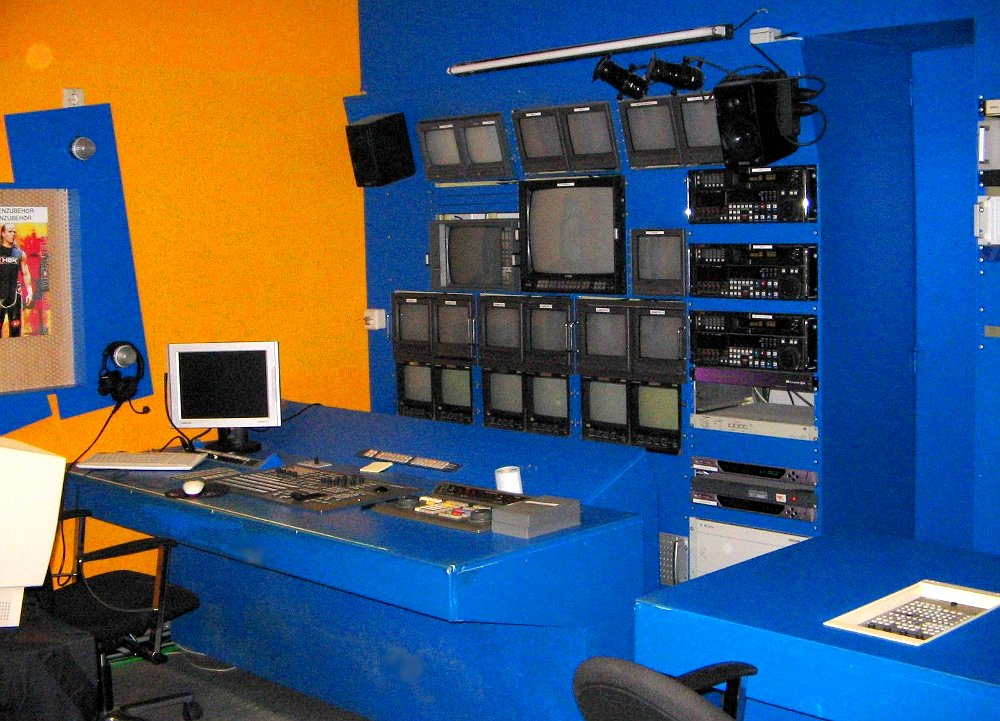 Scene editing room of the German TV-station BTV4U.